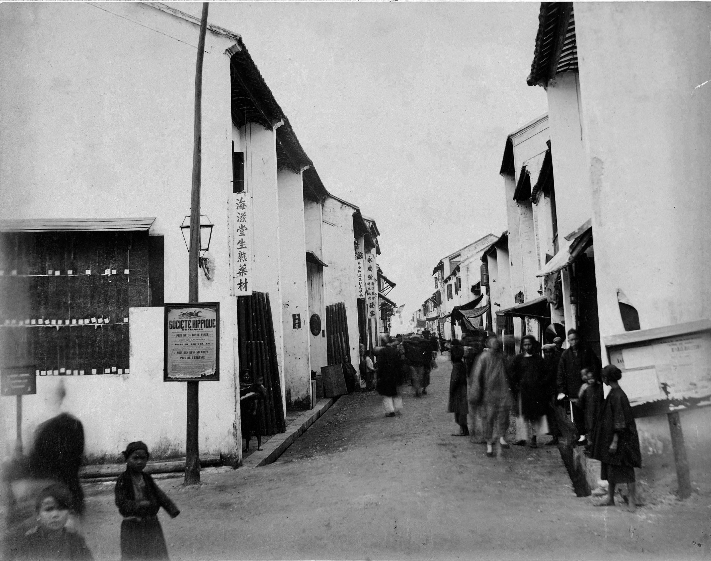 Photograph in Images related to Shanghai and other Chinese cities.